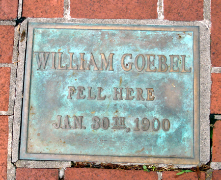 Plaque showing the location where wounded Kentucky Governor William Goebel fell in front of the Old State Capitol in Frankfort, Kentucky